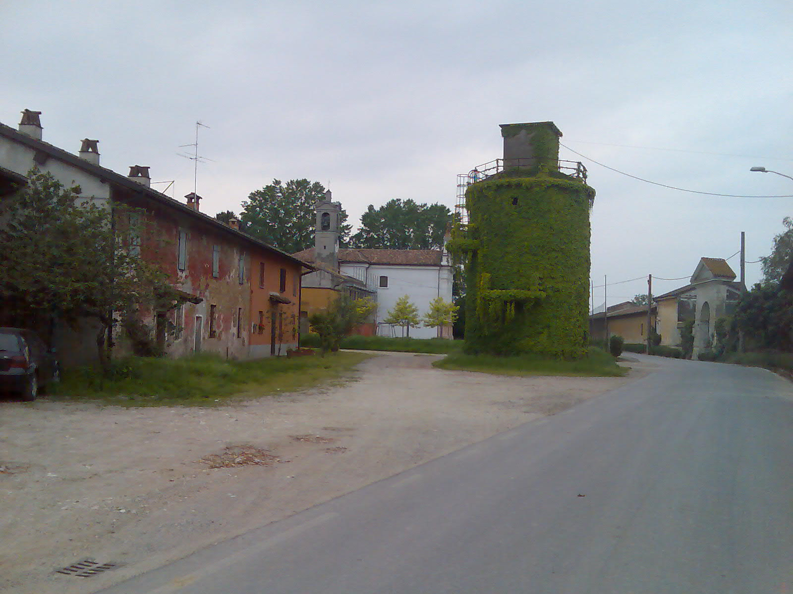 Cortetano, a little village near Sesto ed Uniti in province of Cremona.